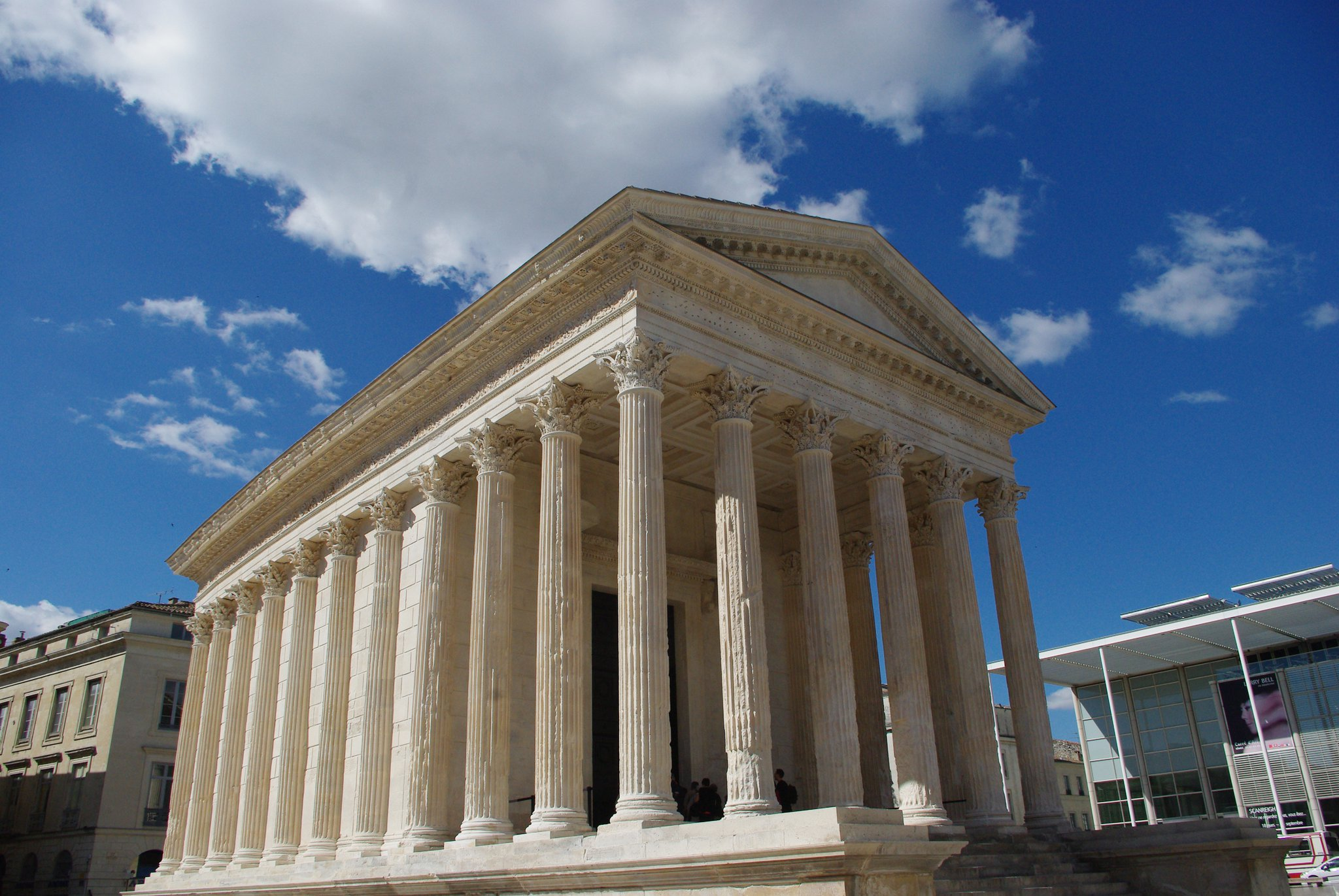 View of the Maison Carrée, after restoration.